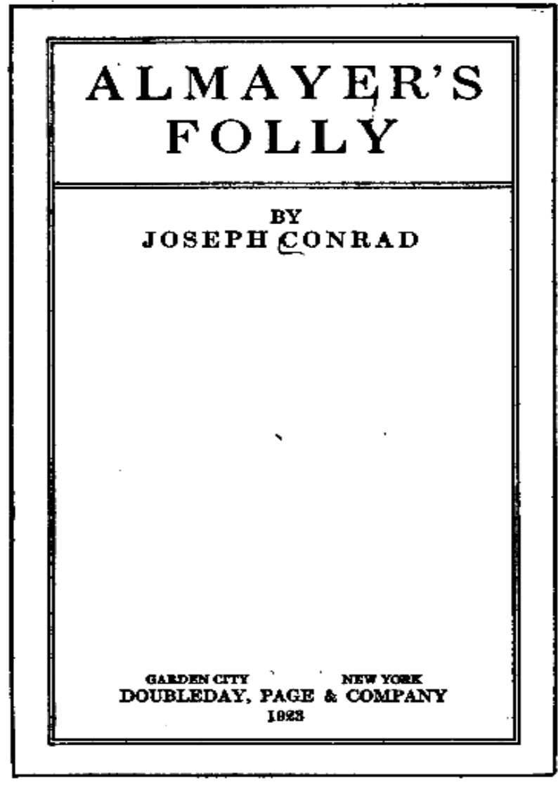 Book front page Almayer's Folly by Joseph Conrad, published in 1923. Set in the late 19th century, it centers on the life of the Dutch trader Kaspar Almayer in the Borneo jungle and his relationship to his mixed heritage daughter Nina.